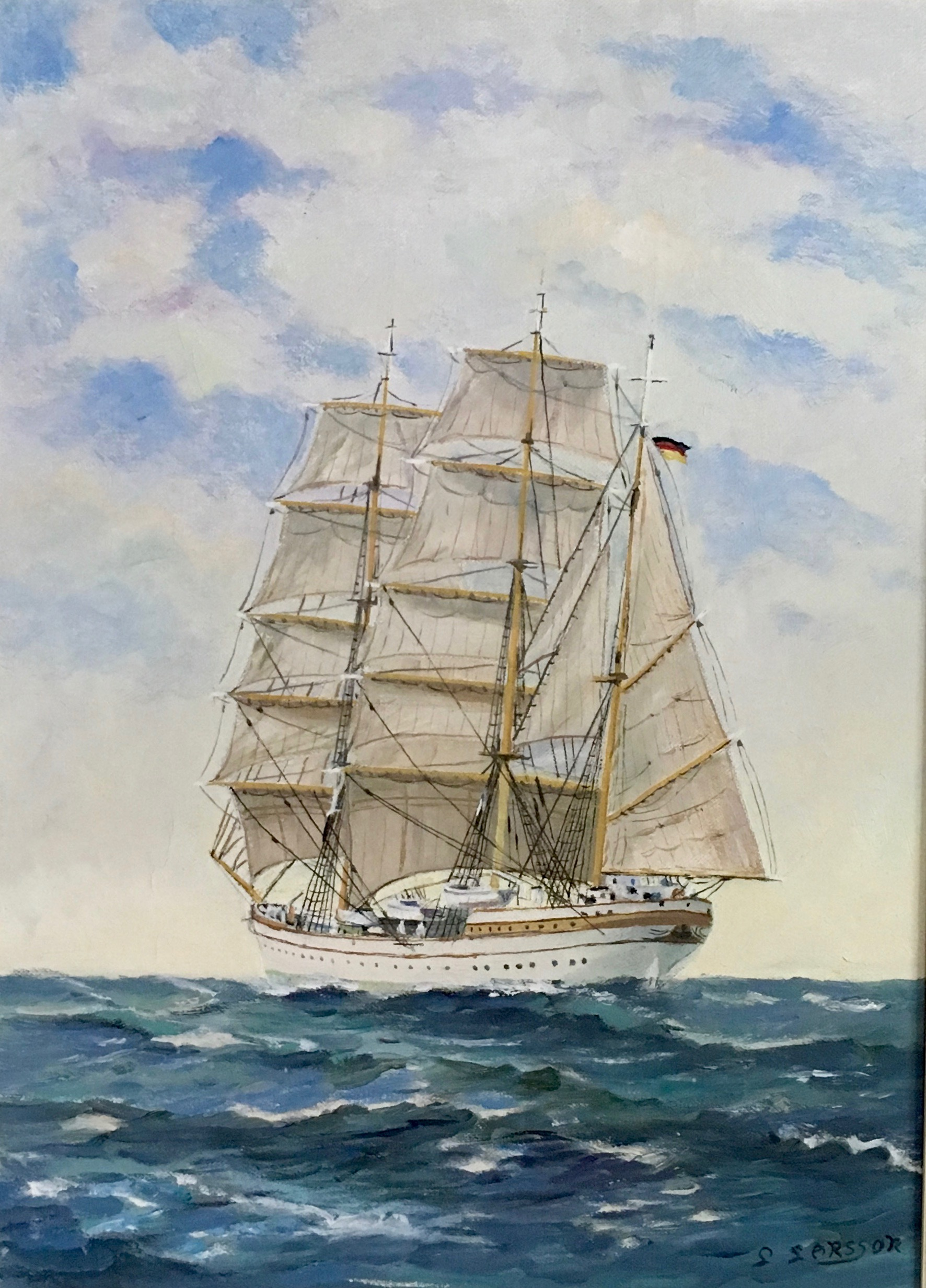 Gorch Fock (1933), painting of her early days at sea by the swedish artist Gunnar Larsson (1907-1982).) Information about the vessel may be found at IMO 7027681.A ship can change name and flag state through time, but the IMO number remains the same through the hull's entire lifetime. As a result, it can be useful to identify a ship by using the IMO number.